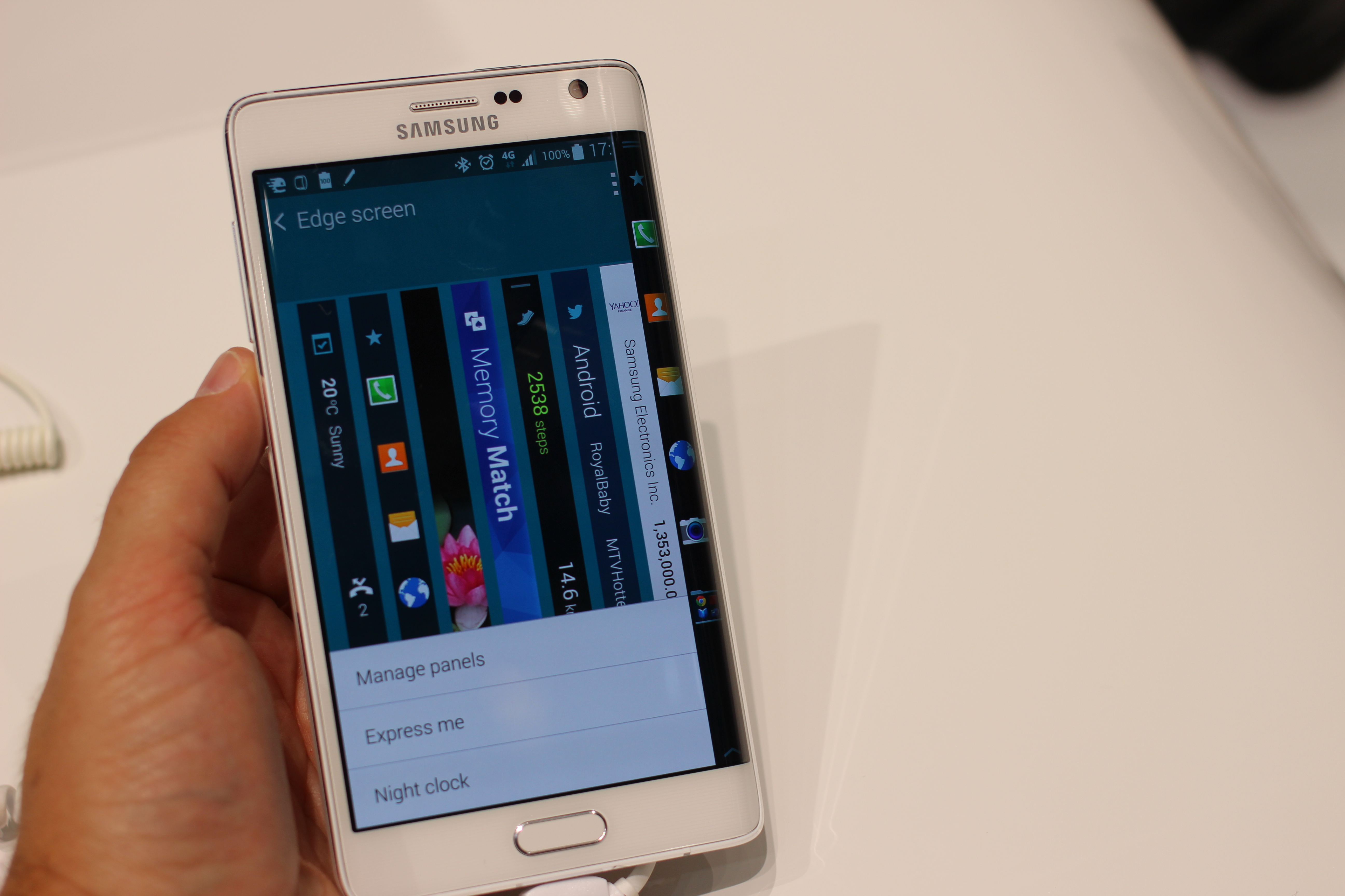 Samsung Galaxy Note Edge in 2014 IFA